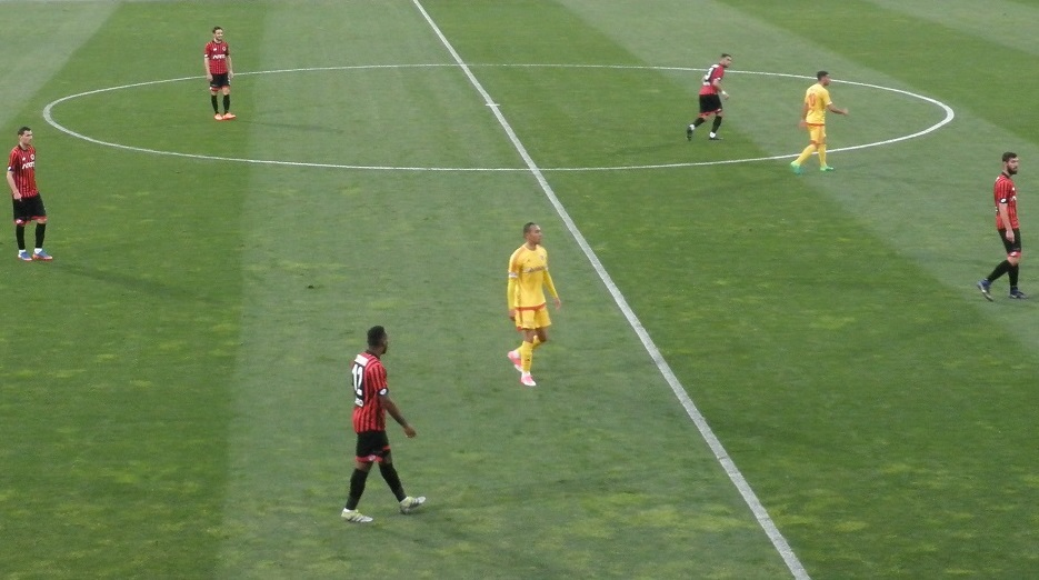 Turkish Super League match: Gençlerbirliği 2-1 Kayserispor